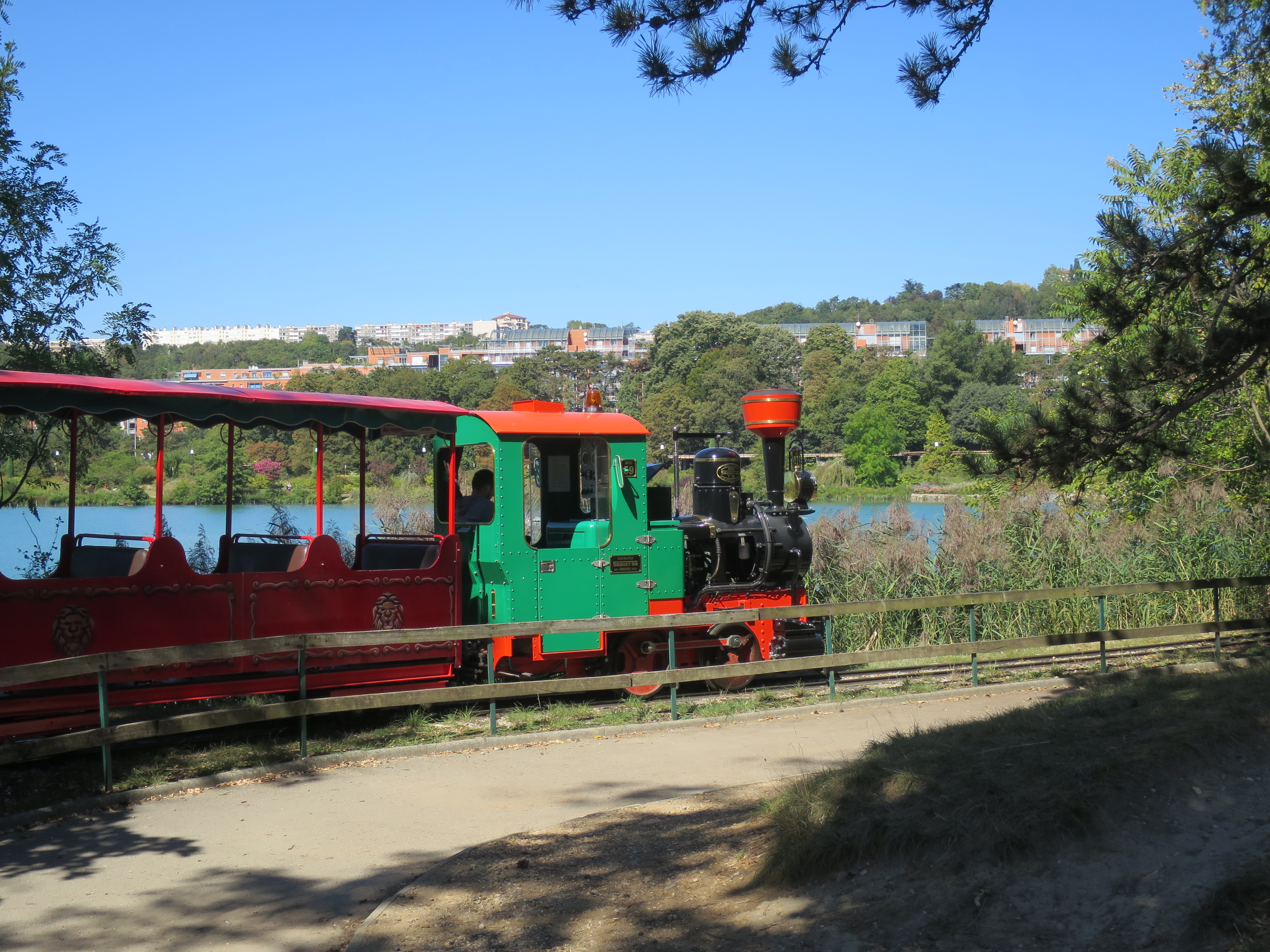 Railway, Parc de la Tête d'Or